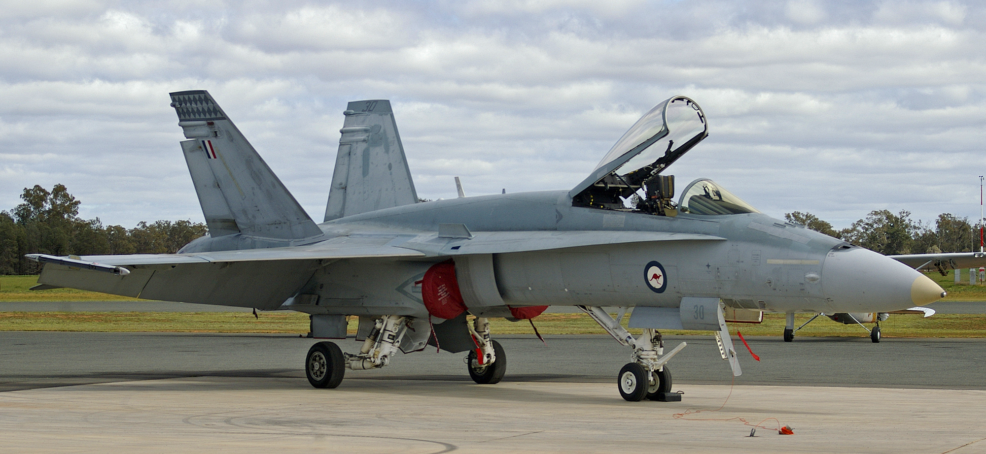 RAAF A21-30 McDonnell Douglas F/A-18A Hornet on display at Temora.